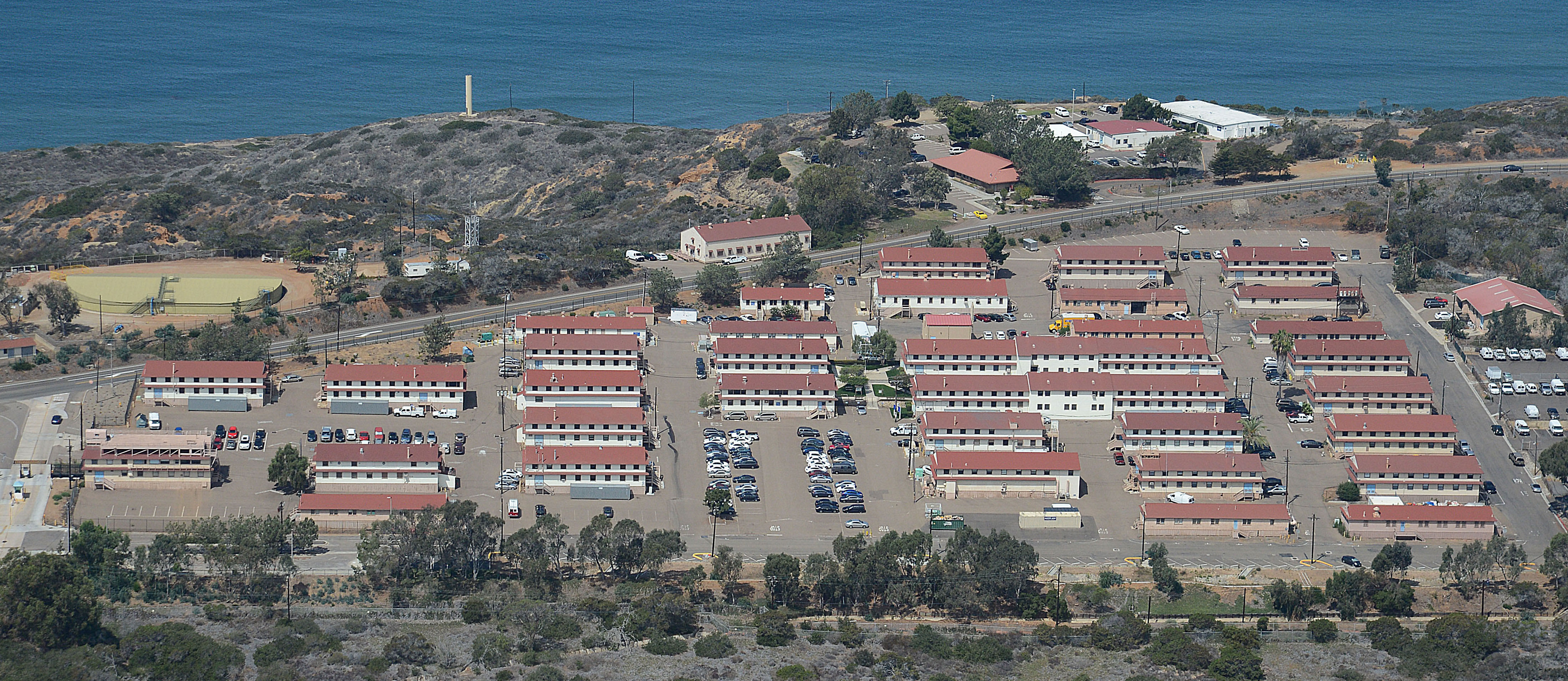 Aerial view of the Naval Health Research Center at Naval Base Point Loma, San Diego in 2014